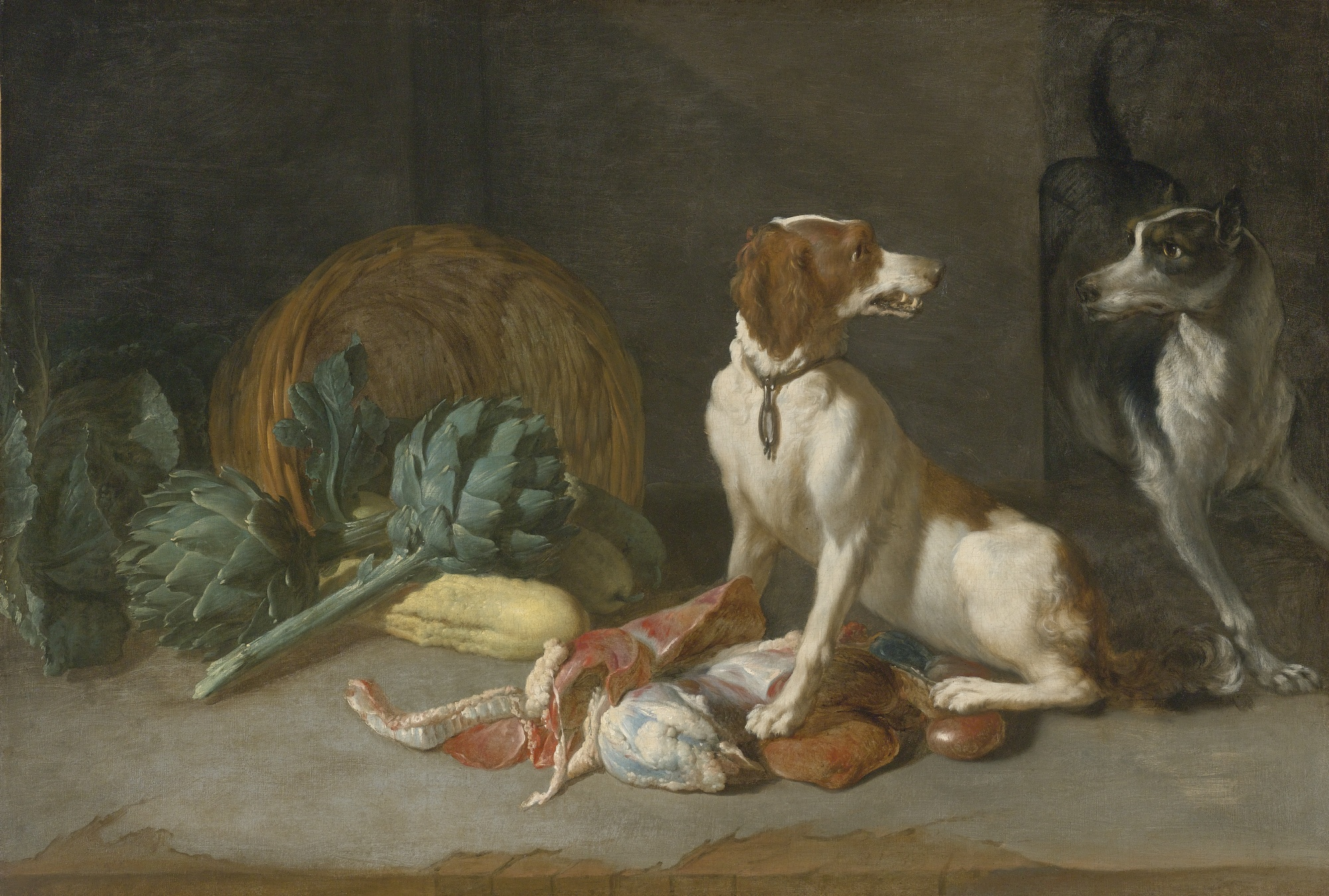 Two Hounds with a Still Life of Entrails, Artichokes, Lettuce, Squash and a Woven Basket signed indistinctly in monogram lower center: P V B oil on canvas; 80 by 117.5 cm.